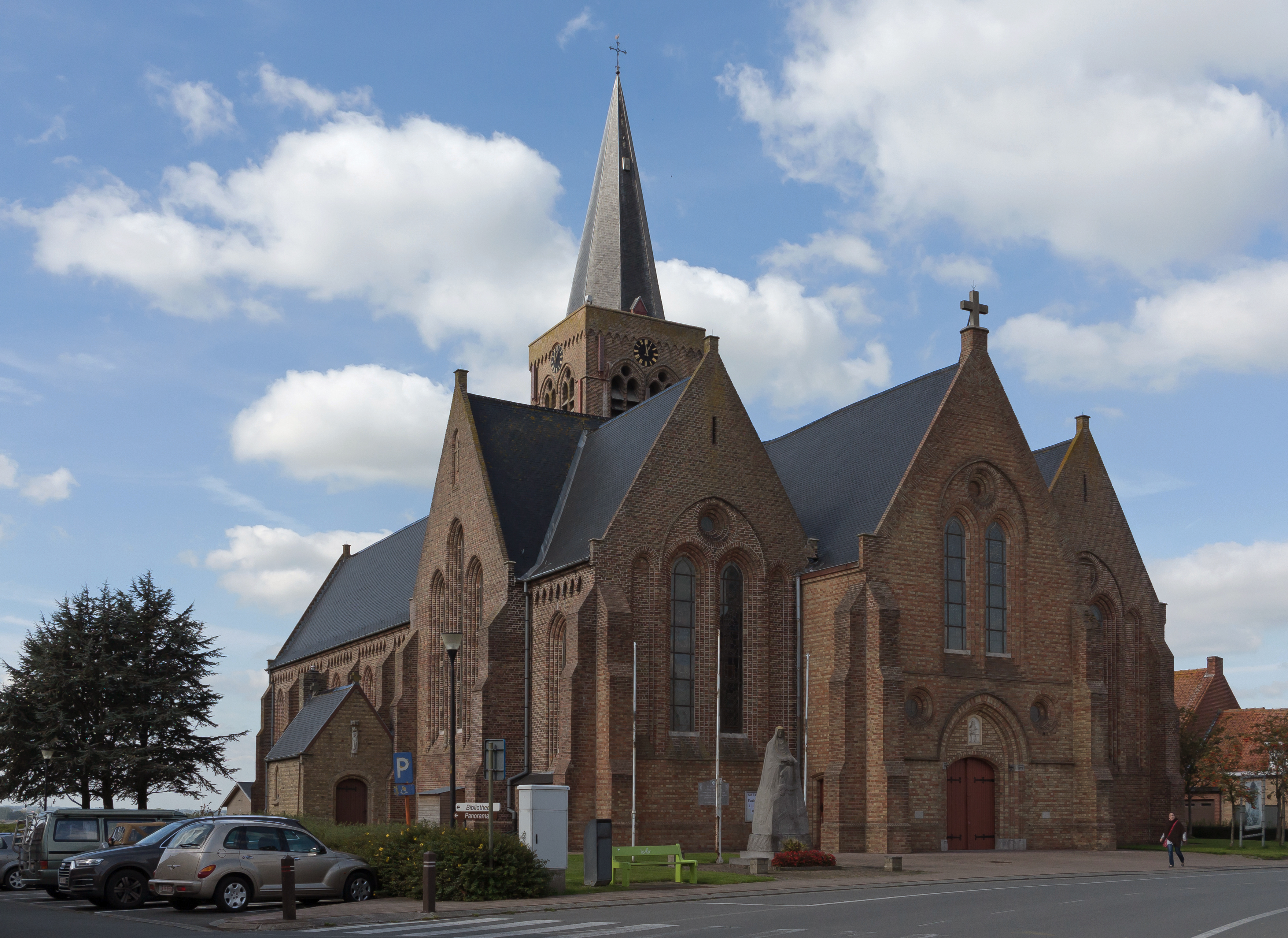 Klerken, church parochiekerk toegewijd aan Sint-Laurentius